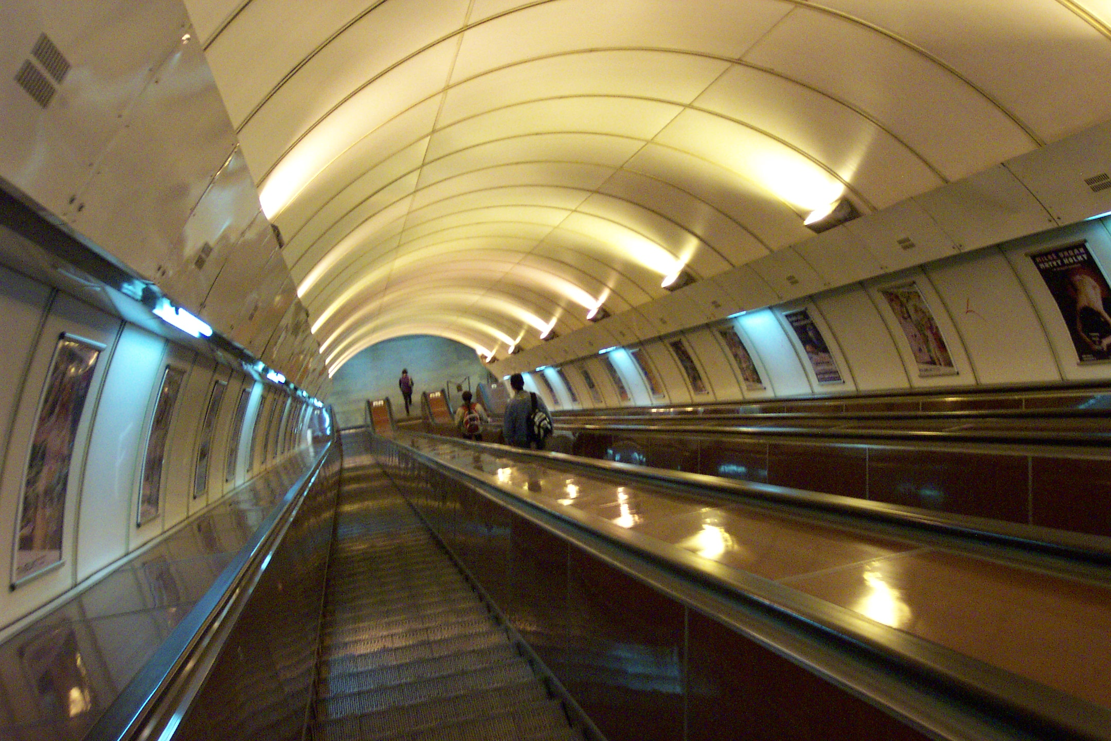 Prague, metro station Jinonice